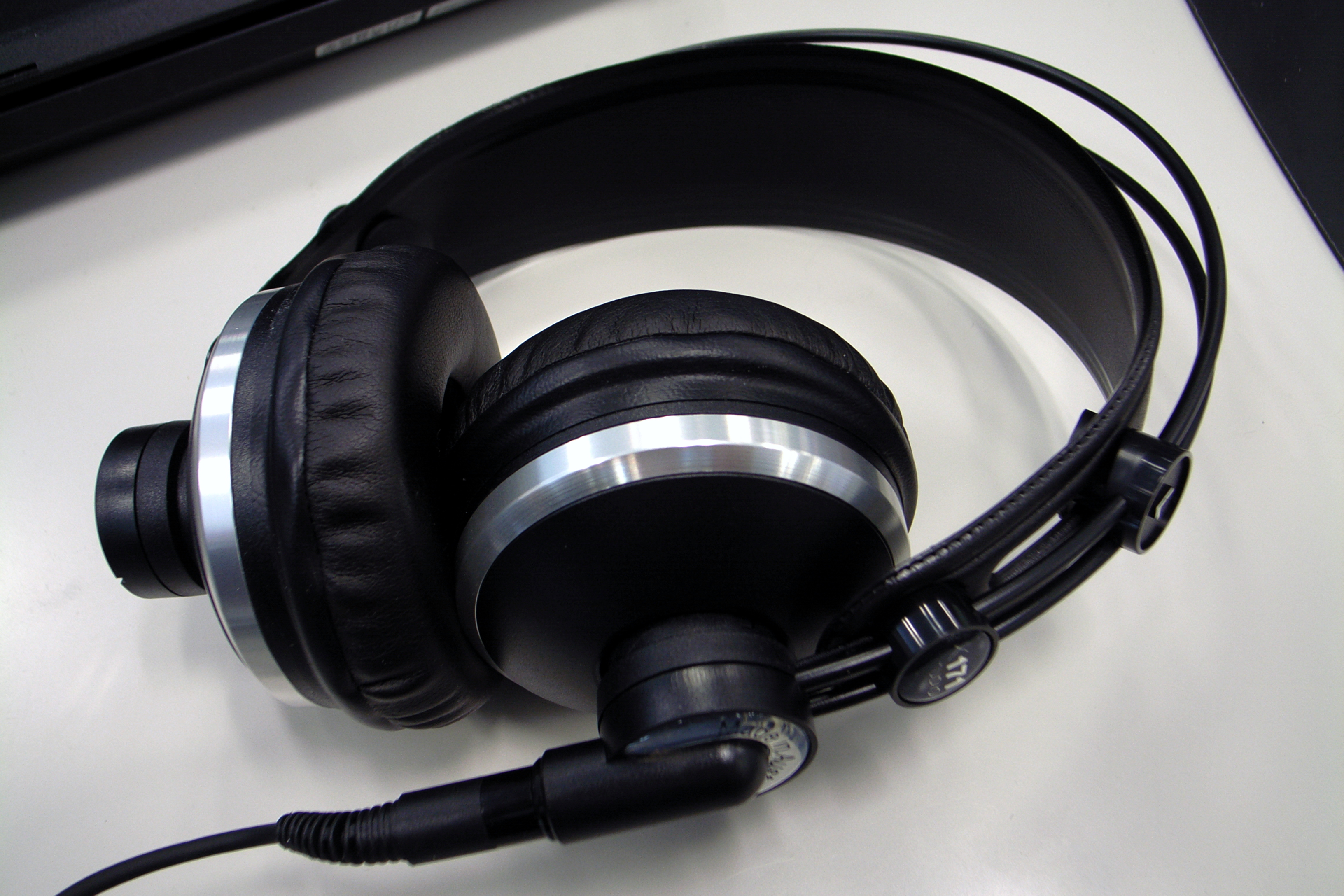 AKG K171S current product: AKG K171 MK II